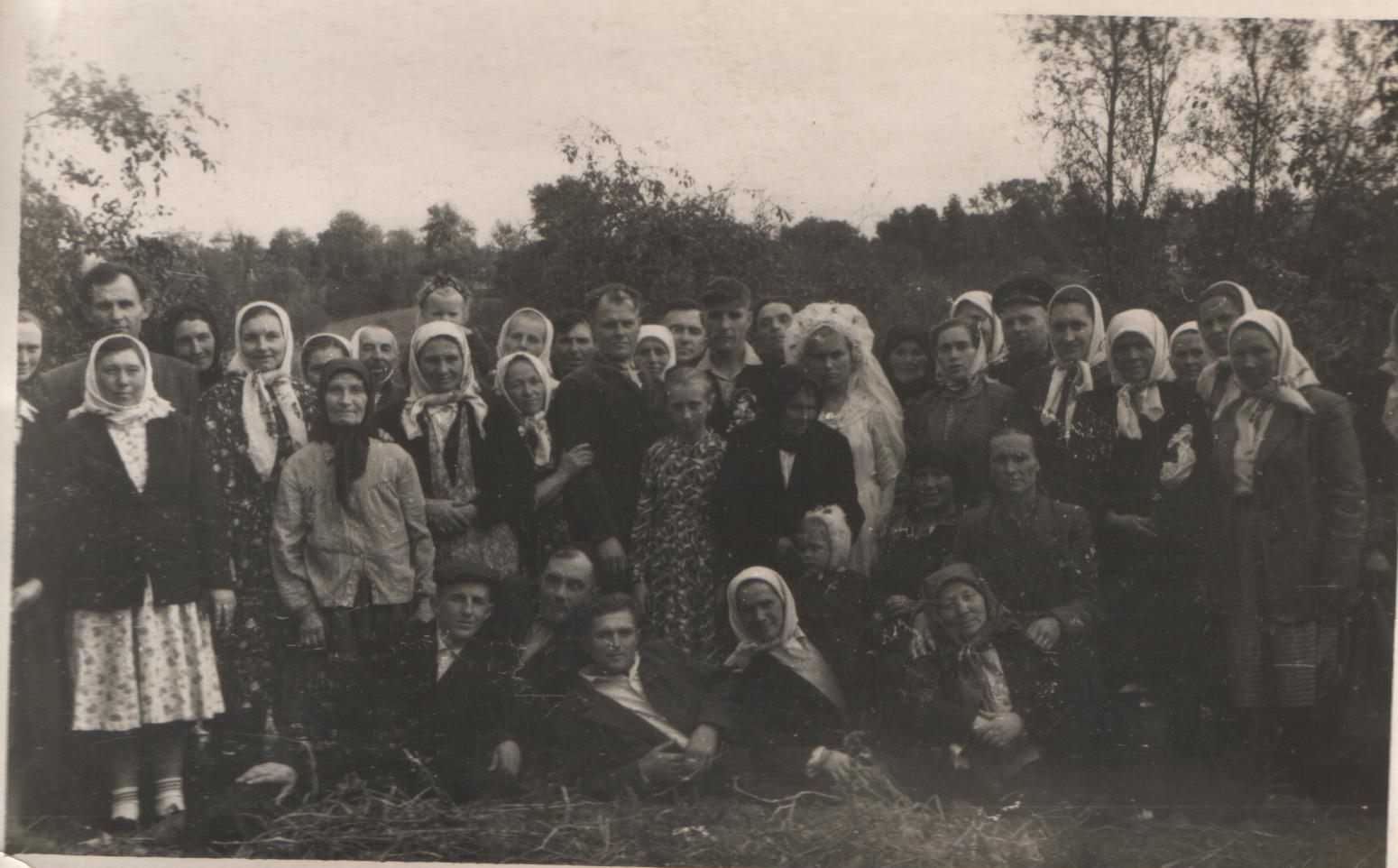 Сільське весілля (1937 рік)